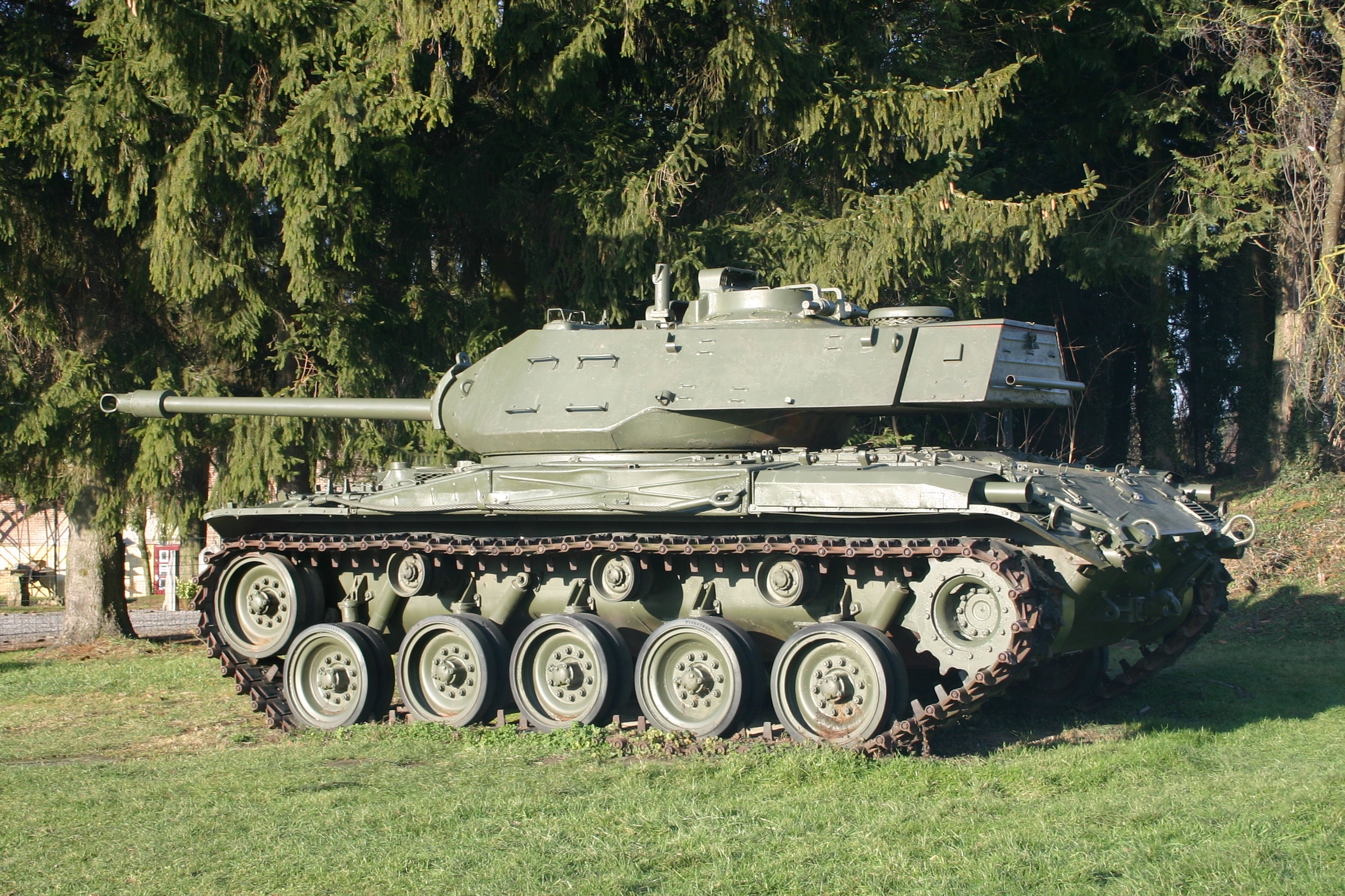 Walker Bulldog at Fort Eben Emael (Belgium)